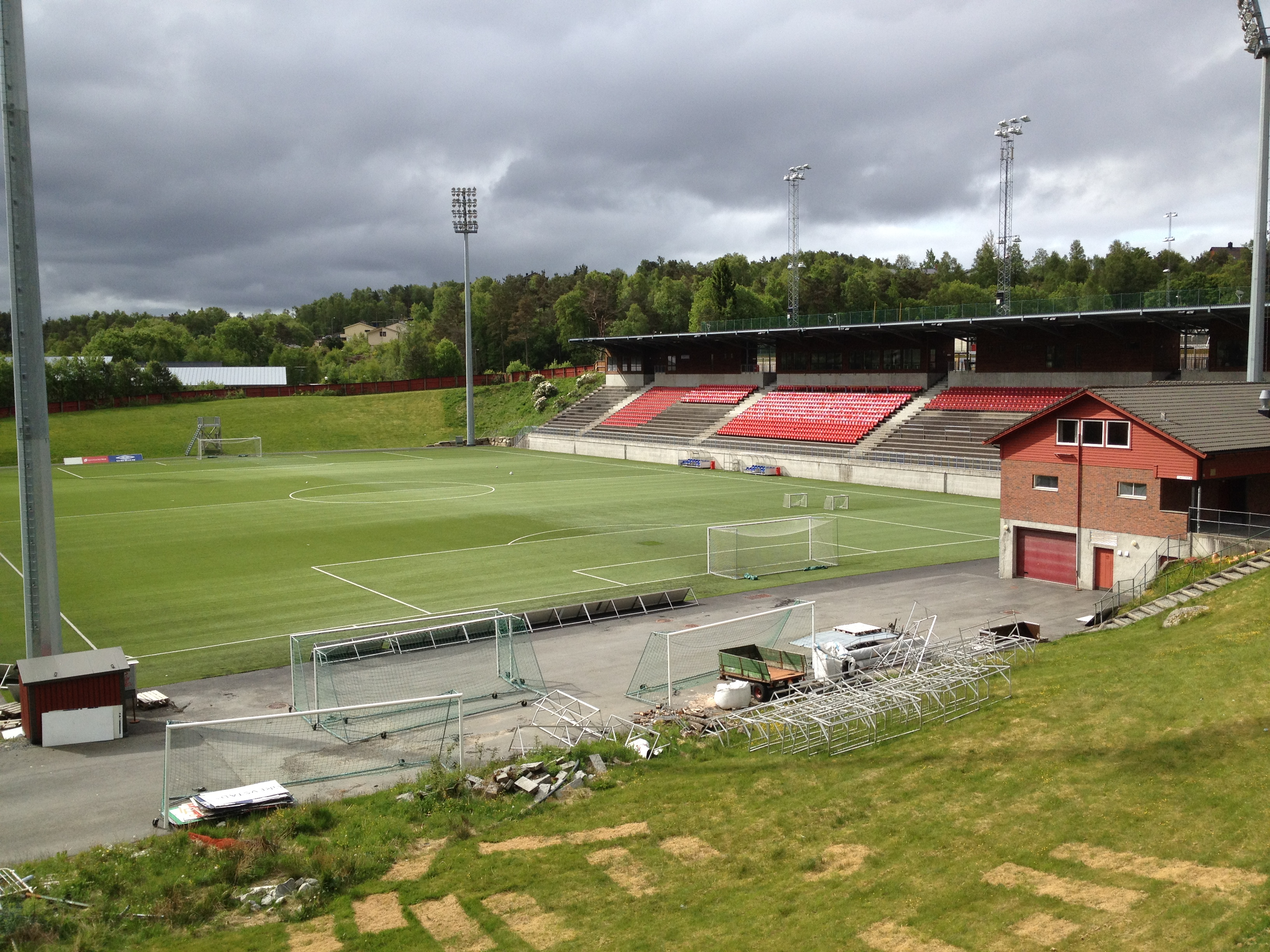 Varden Amfi in Bergen, Norway, photographed in 2012